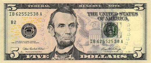 New five dollar bill debuts March 13, 2008.